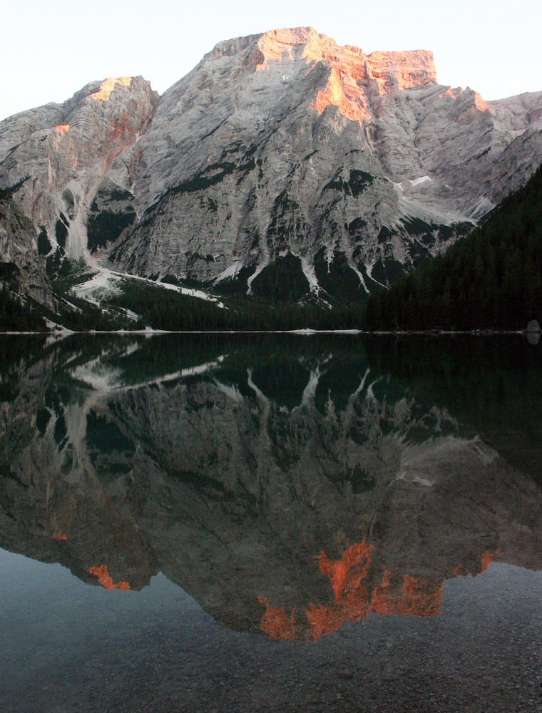 Lago di Braies at sunset, South Tyrol, Italy